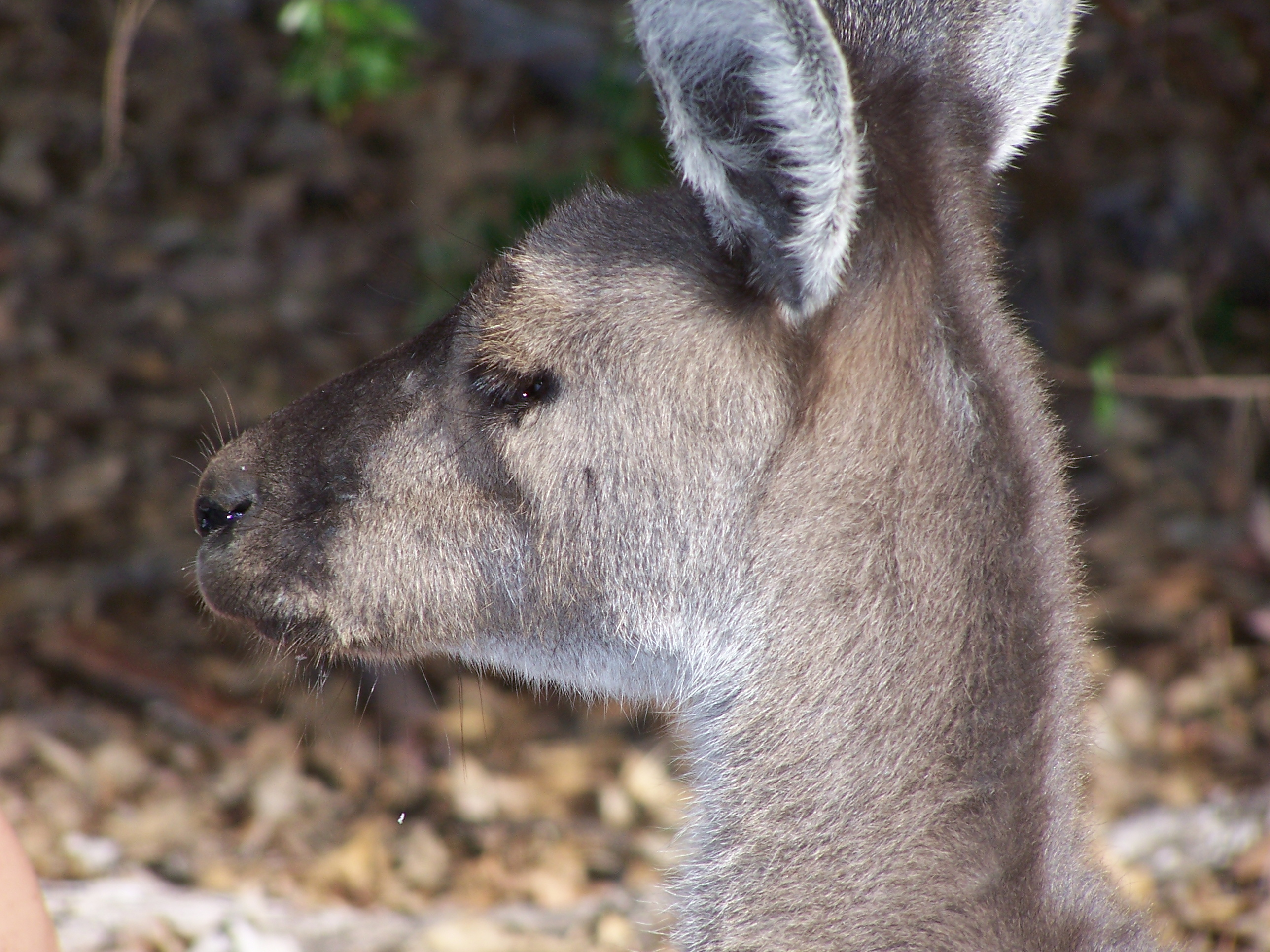 Closeup of Western Grey Kangaroo(Macropus fuliginosus) Head, taken in the Serpentine Falls National Park Western Australia.